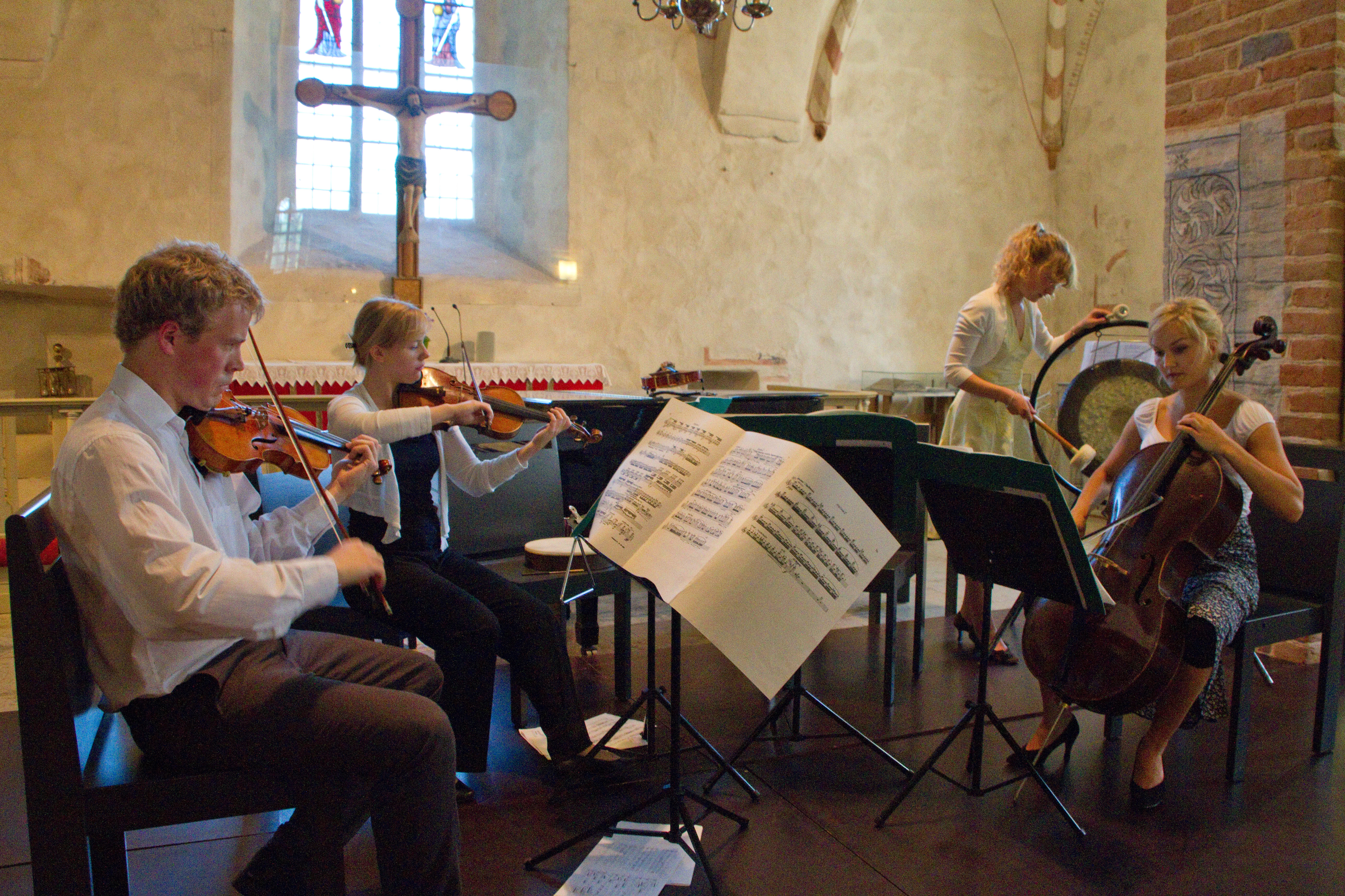 Nagu Chamber Music Festival